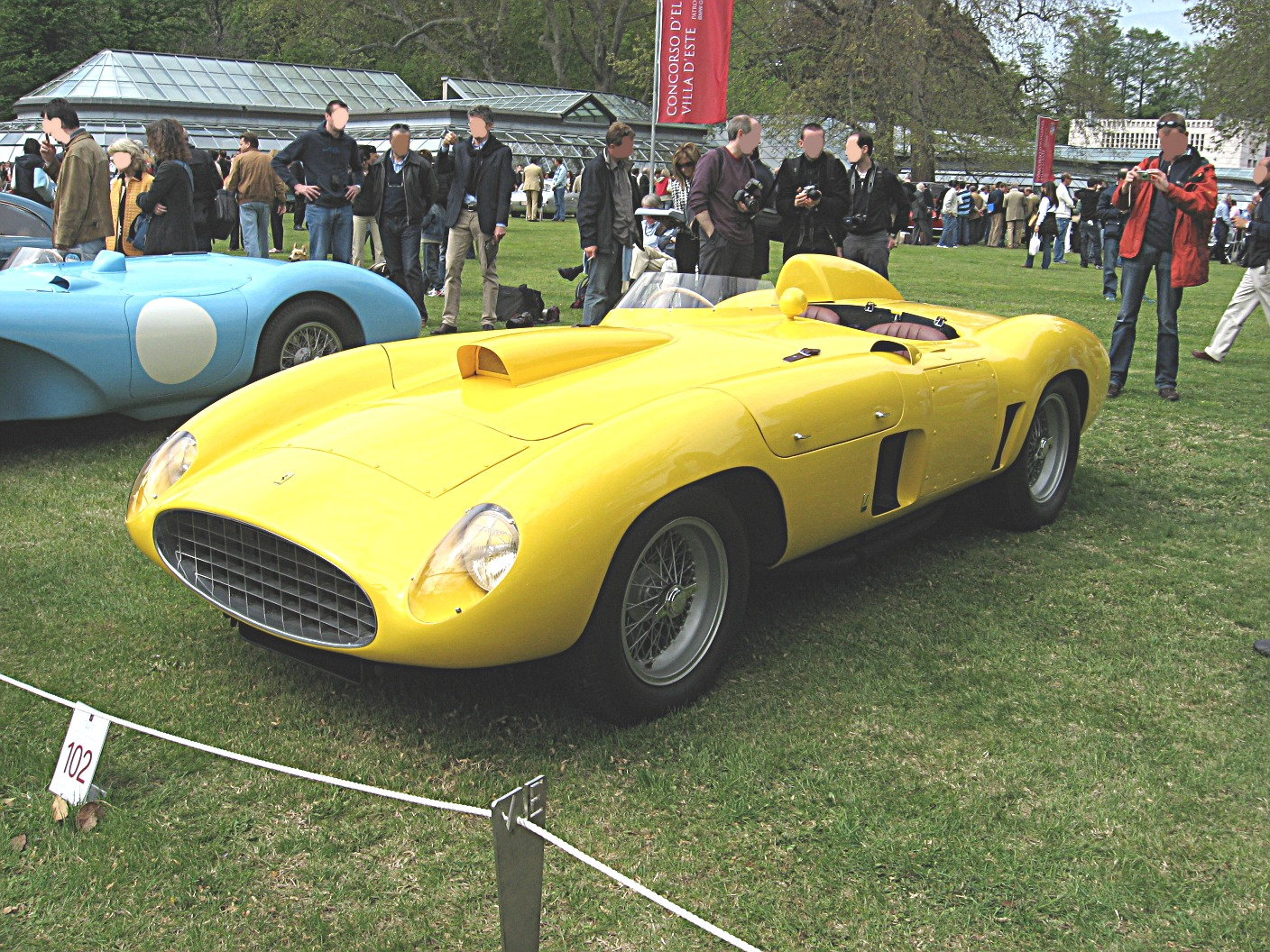 Subject: Ferrari 410 Spider, coachbuilding by Scaglietti (1955) Date:April 27th, 2008 Event:Concorso d’Eleganza”Villa d’Este” 2008 Place/Country: Cernobbio (CO), Italy I release all rights in the public domain.